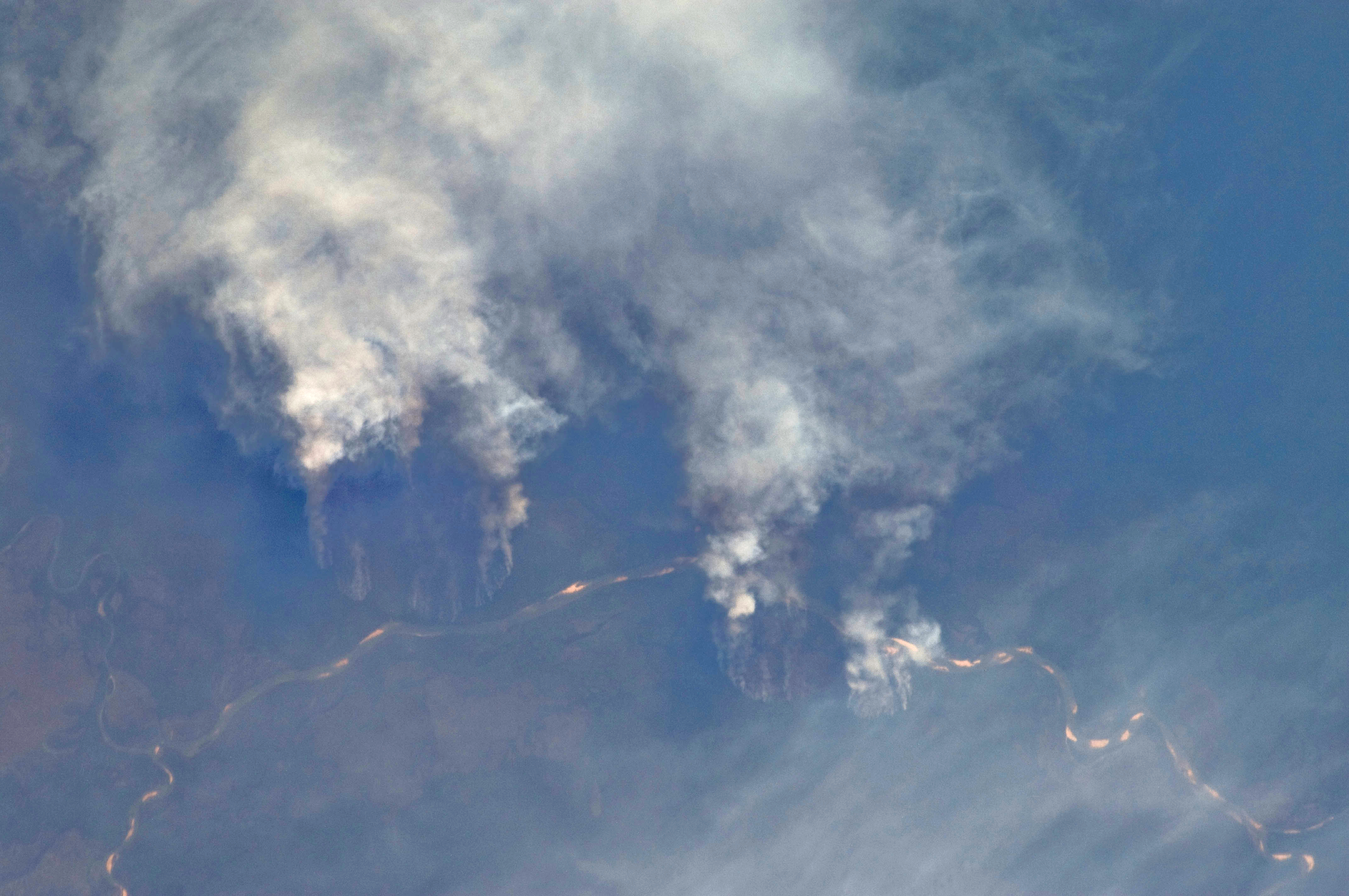 This astronaut photograph illustrates slash-and-burn forest clearing along the Rio Xingu (Xingu River) in the state of Mato Grosso, Brazil. The photo was taken from the International Space Station, a platform from which astronauts can capture images of the Earth from a variety of viewing angles. The perspective above shows both the horizontal position and the extent of the fire lines next to the river, while also providing a sense of the vertical structure of the smoke plumes. Light coloured areas within the river channel are sand bars, which show that the river is in its annual low-flow/low-water stage. For a sense of scale, the river channel is approximately 63 kilometres long in this view. ISS Crew Earth Observations: ISS029-E-8032 Identification Mission ISS029 (Expedition 29) Roll E Frame 8032 Country or Geographic Name BRAZIL Features RIO XINGU, FOREST, AMAZONIA, SMOKE PLUMES Center Point Latitude -11.8° N Center Point Longitude -53.6° E Camera Camera Tilt 28° Camera Focal Length 200 mm Camera Nikon D2Xs Film 4288 x 2848 pixel CMOS sensor, RGBG imager color filter. Quality Percentage of Cloud Cover 0-10% Nadir What is Nadir? Date 2011-09-17 Time 20:13:03 Nadir Point Latitude -12.8° N Nadir Point Longitude -55.1° E Nadir to Photo Center Direction Northeast Sun Azimuth 277° Spacecraft Altitude 205 nautical miles (380 km) Sun Elevation Angle 19° Orbit Number 1537